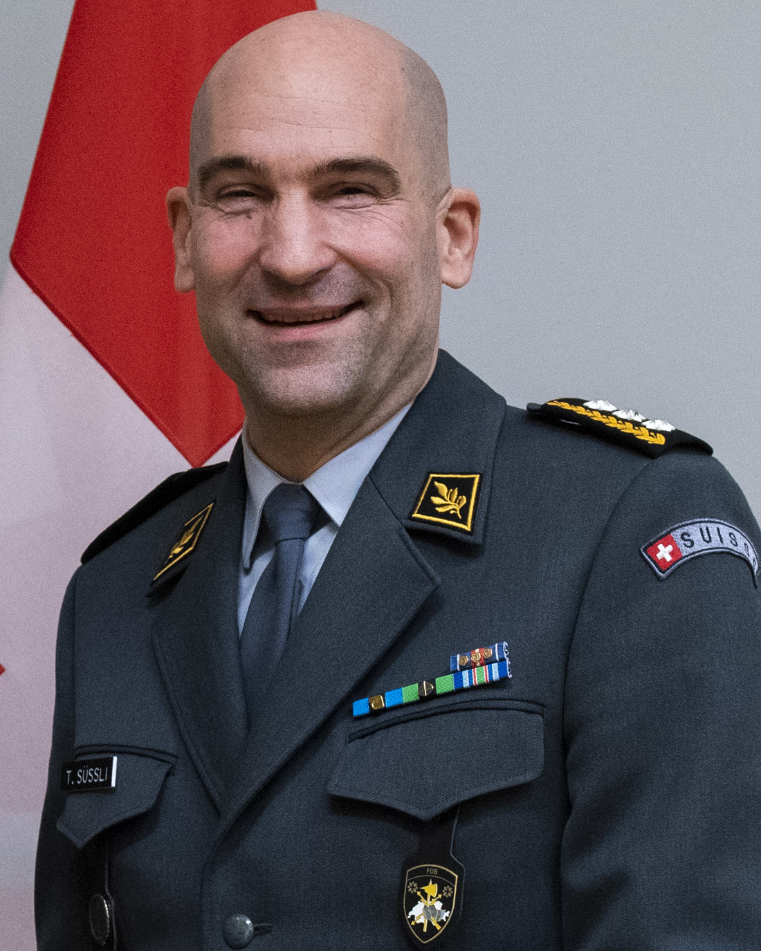 Chairman of the Joint Chiefs of Staff General Mark A. Milley meets with Switzerland Chief of the Armed Forces Lt. Gen. (select) Thomas Süssli in Bern, Switzerland, December 18, 2019. During the meeting, the two senior military leaders discussed mutual security interests between Switzerland and the United States. (DOD photo by U.S. Army Sgt. 1st Class Chuck Burden)